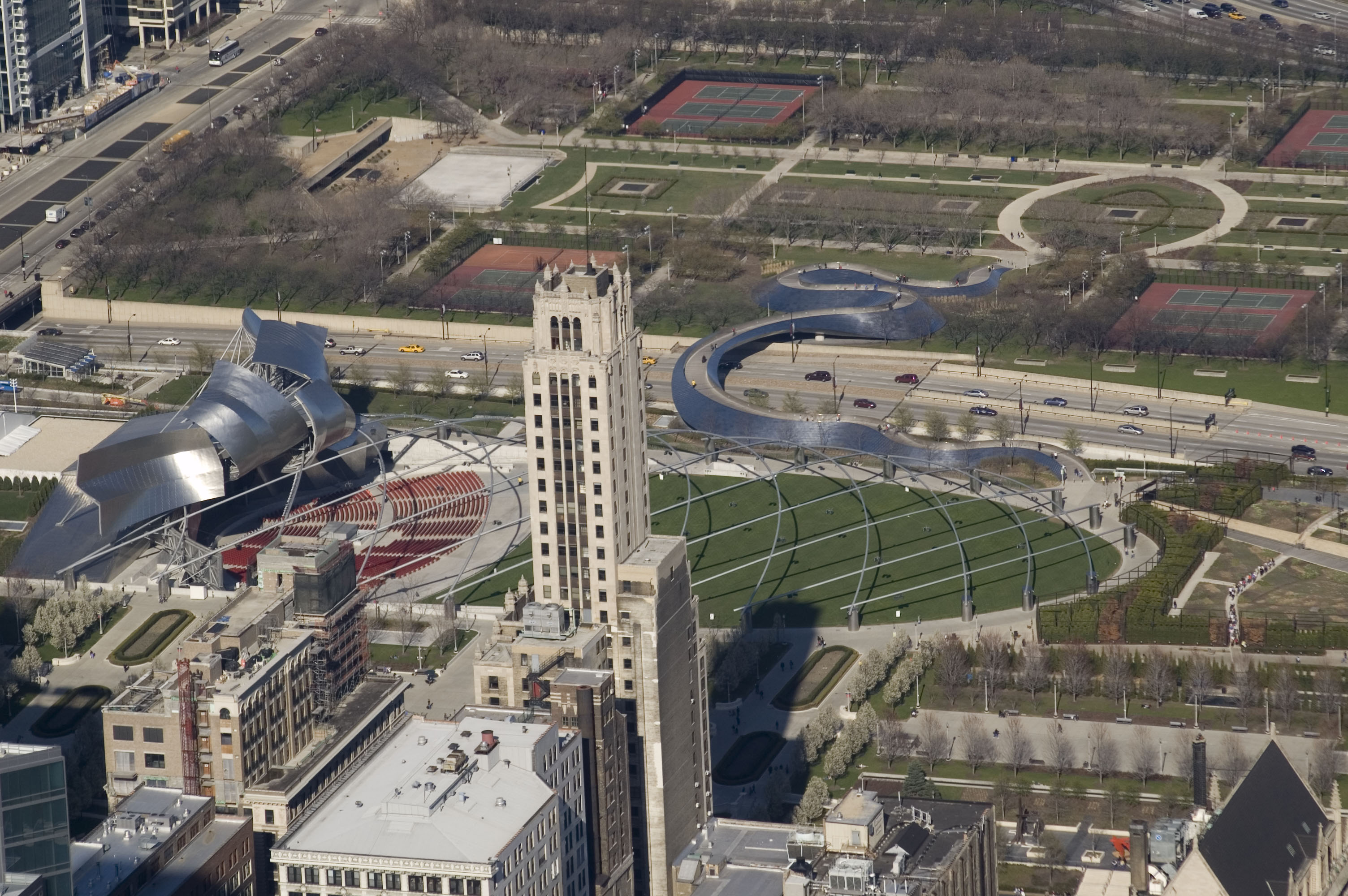 View of Millennium Park from the Willis Tower (Formerly Sears Tower) in 2007, before Legacy Tower was built. The Jay Pritzker Pavilion and BP Bridge in the park are clearly visible, as well as part of Lurie Garden at right and the McDonald Cycle Center in the left hand corner. Daley Bicentennial Plaza is behind Millennium Park, both are part of the larger Grant Park.